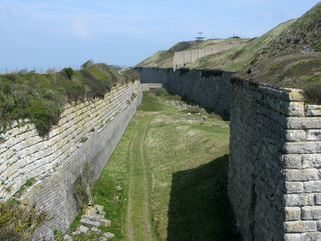 Moat surrounding the Verne Citadel, Portland. The Victorian defence works have been supplemented by some newer additions for HM Prison The Verne